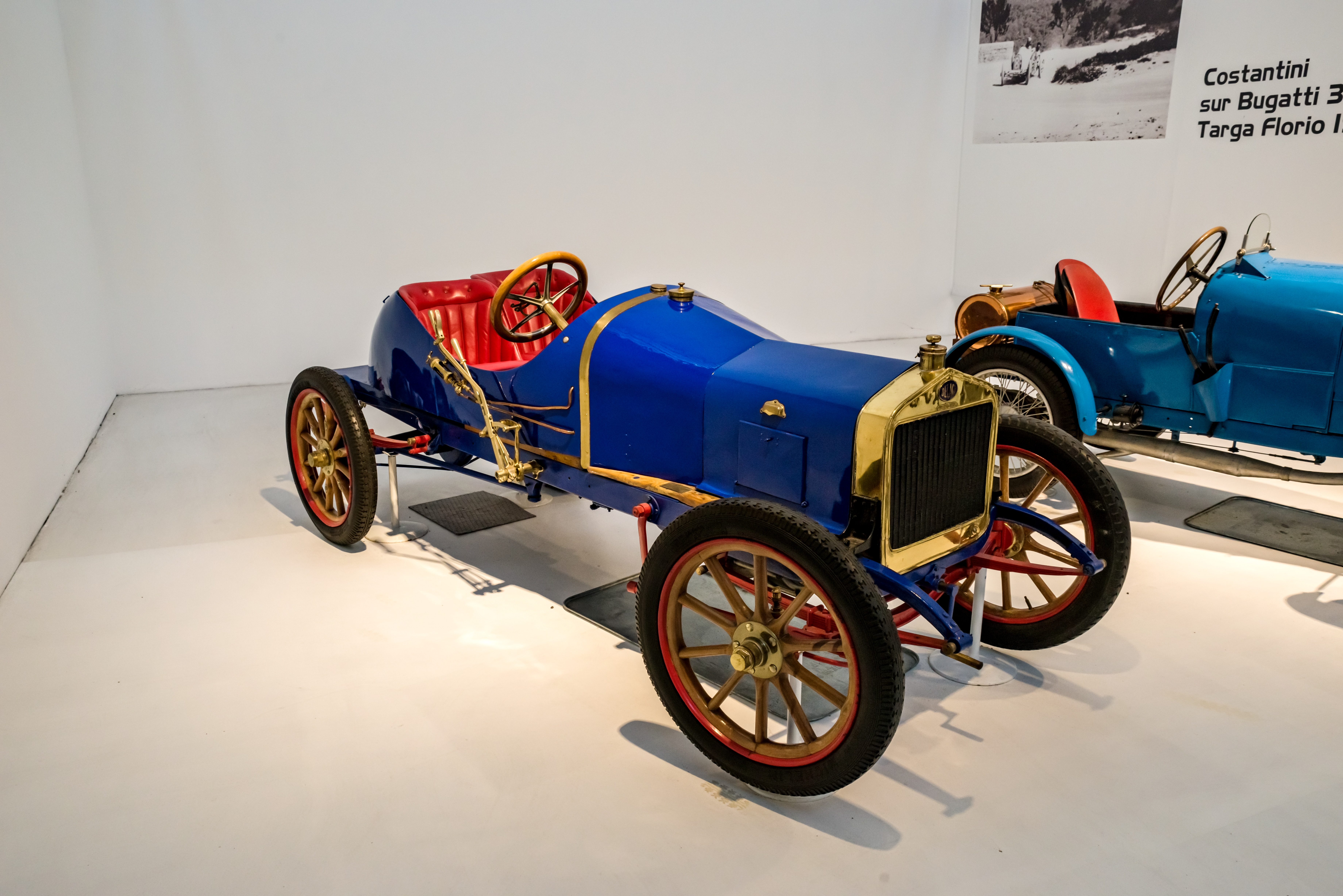 pictures from the Cité de l’Automobile – Musée National – Collection Schlump in Mulhouse, France ptictures from the 10. may 2018